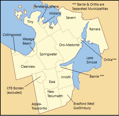 Map of Simcoe County, Ontario, with its component municipalities indicated. Based on File:Simcoe County Locator map.svg by User:Wikada which has been released to the Public Domain, with my own work added.